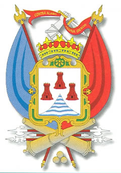 Escudo de Puno